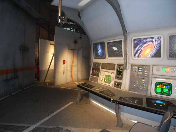 Film set for the 2004 film Traumschiff Surprise – Periode 1, Bavaria Filmstadt, Munich, Bavaria, Germany.